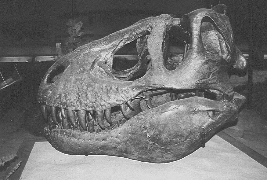 Skull of Tyrannosaurus rex. From the US Department of the Interior